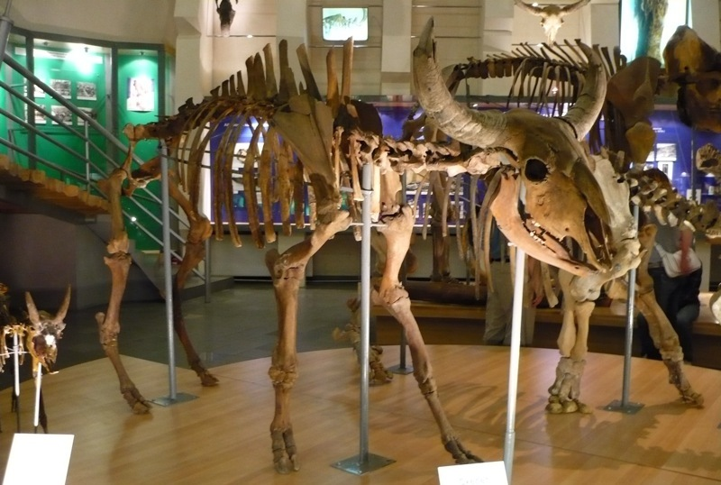 This is at the Mammoth Museum, a Bison